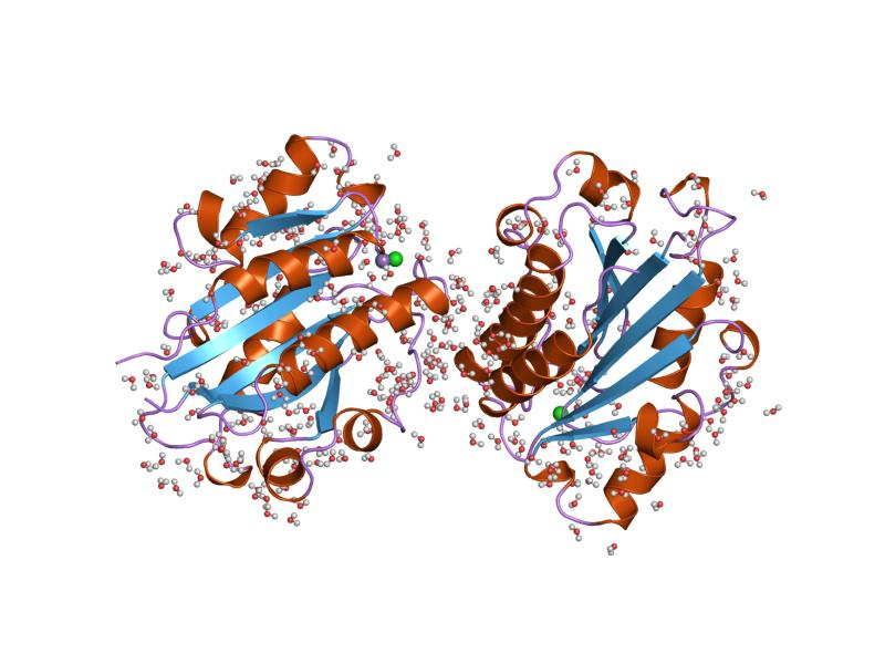 Cartoon representation of the molecular structure of protein registered with 1lfa code.